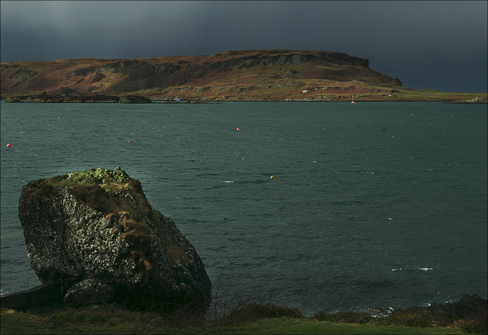 Argyll & Bute Oban